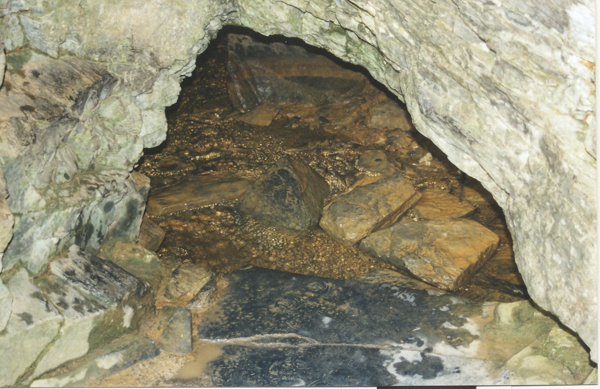 Lost River, An underground River near Natural Bridge (Virginia).